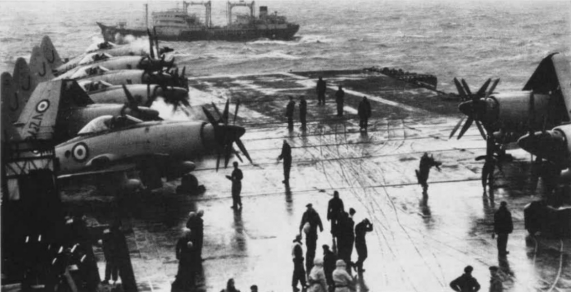 Royal Navy Westland Wyvern fighters aboard the aircraft carrier HMS Eagle (R05) in 1956.